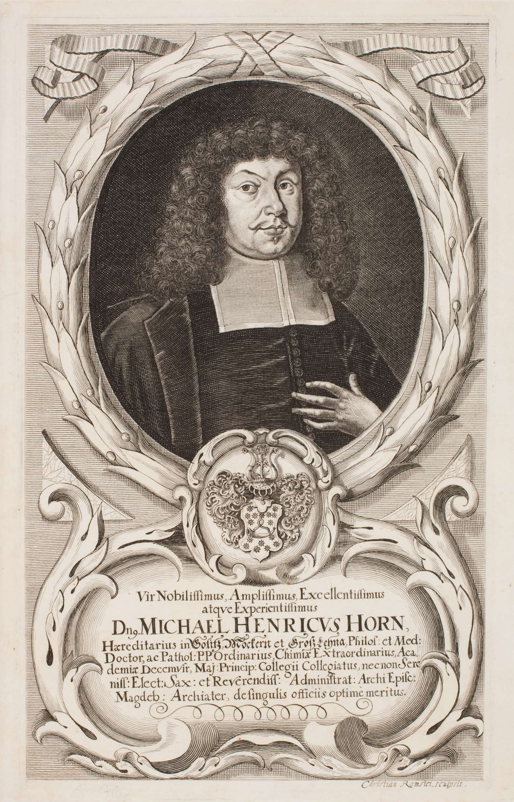 Michael Heinrich Horn (1623-1681) Chemist and Physician from Germany